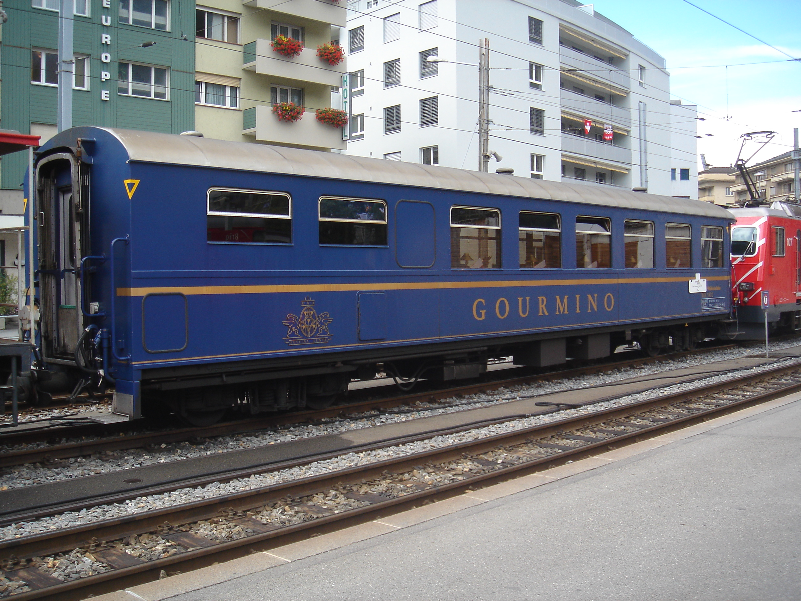 RhB dining car WR 3810 waits for the Glacier-Express from Zermatt